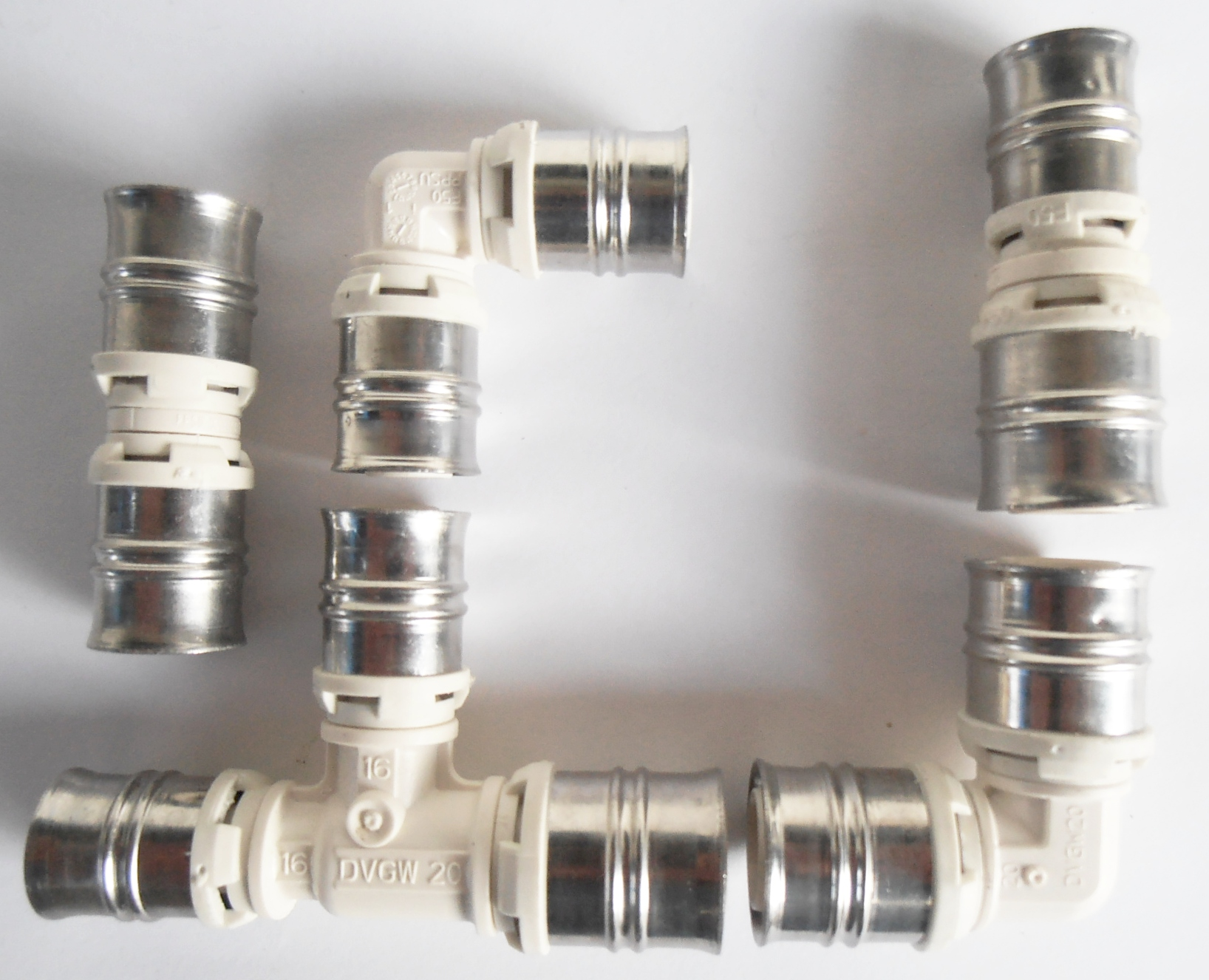 Press fittings, several parts (connector, reduction, T 16/16/20, elbows) 16 and 20 mm.